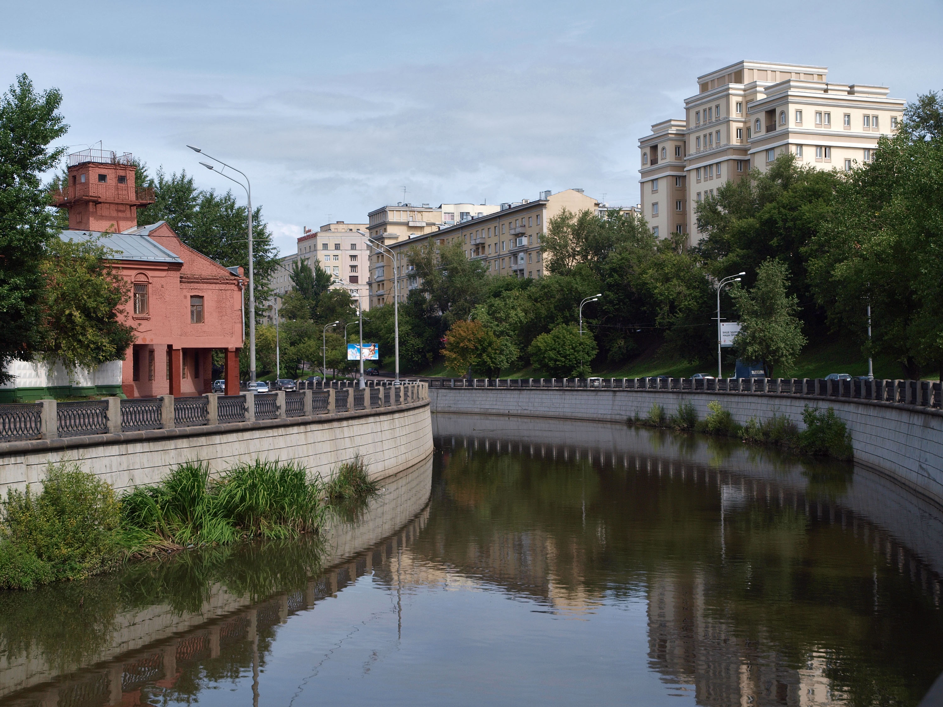 Rusakovskaya (left) and Preobrazhenskaya (right) embankment of the Yauza River, Moscow.